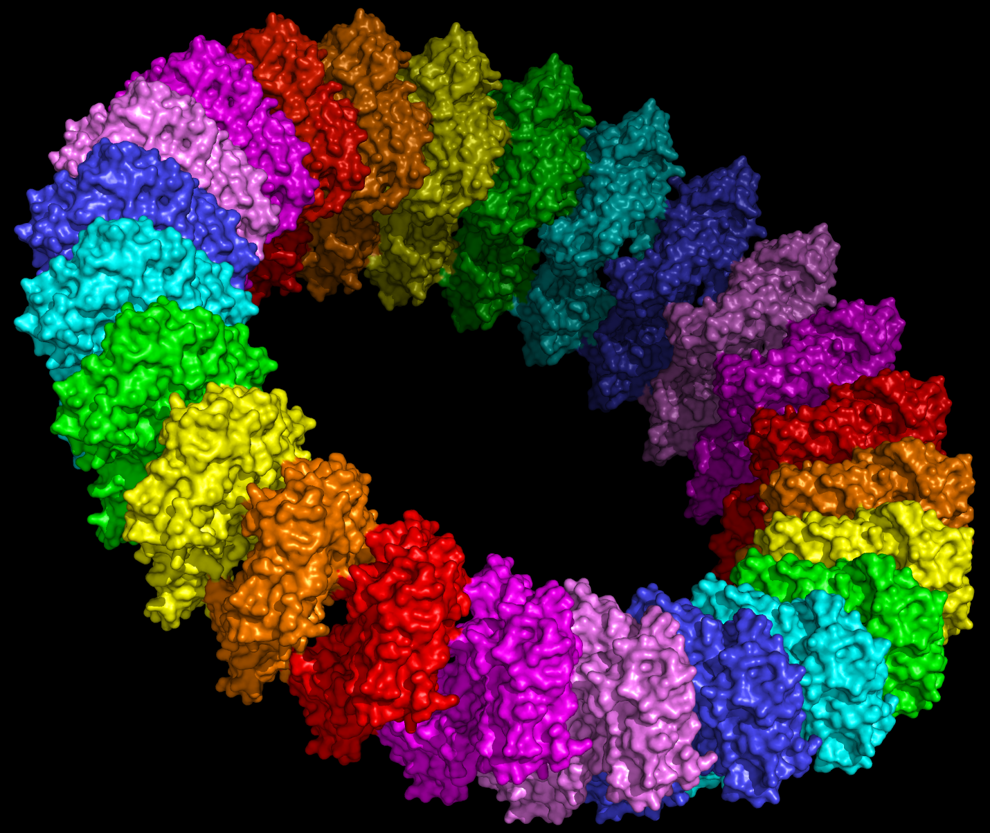 Onering - Molecular model of the pre-pore form of a MACPF protein based upon the structure of pneunolysin